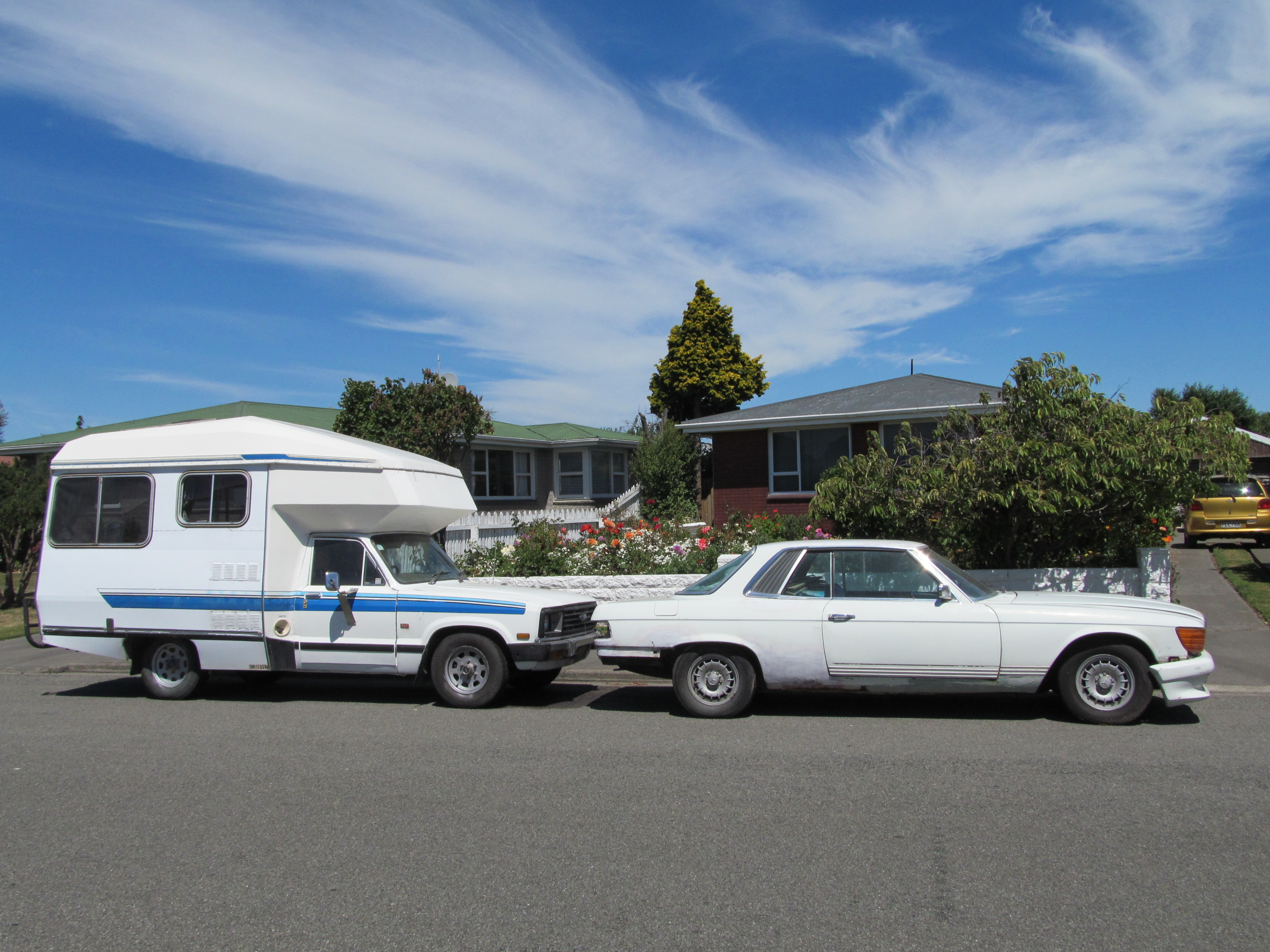 This battered Merc SLC was enough to initially attract my attention, but the Ford Courier camper behind was an added bonus. I recall quite a few Couriers and their Mazda B-Series siblings were converted into these campers by a local company in about 1983/1984... I think the SLC is a rolling restoration.